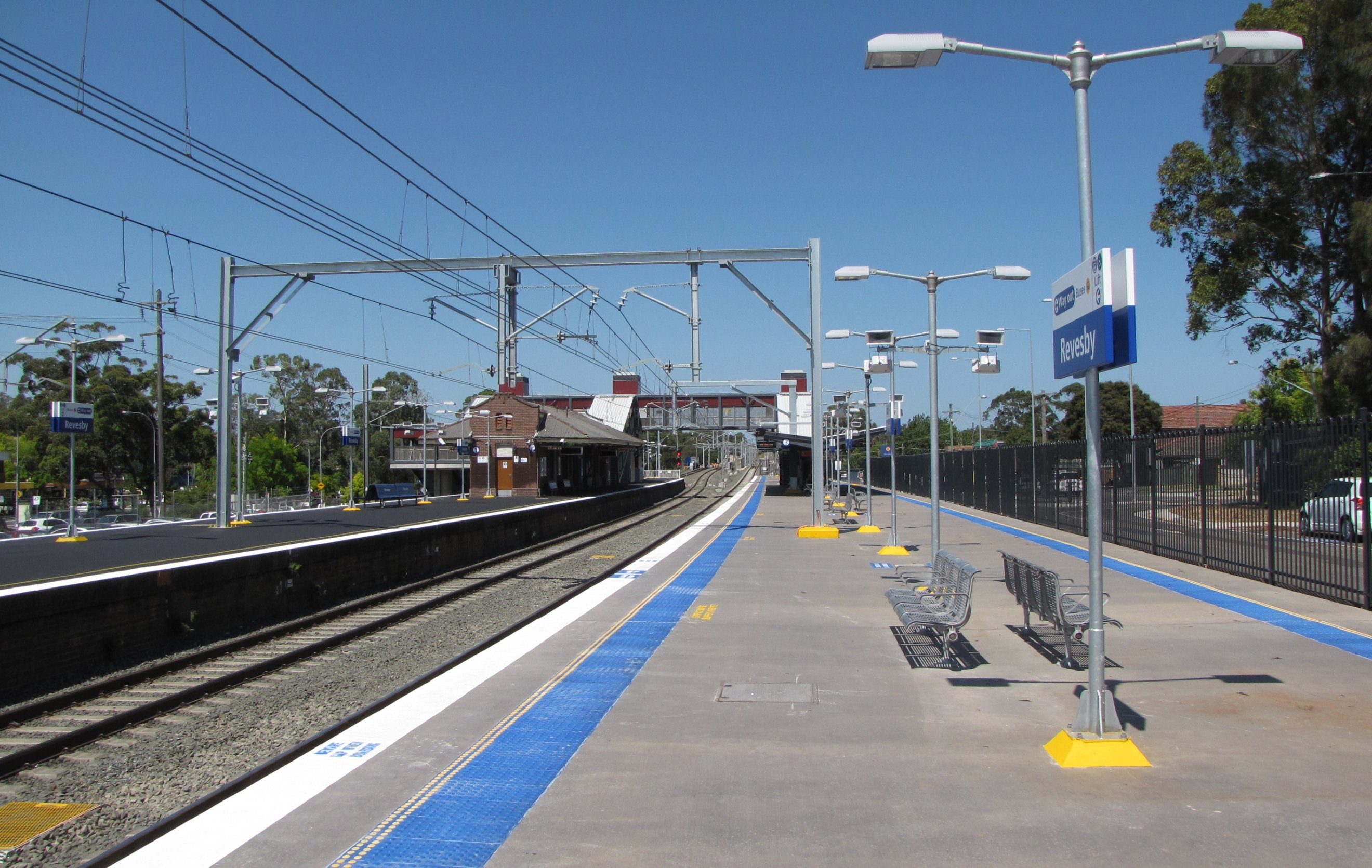 Revesby station in 2009. This station will receive two new platforms under the Rail Clearways project. The first platform (3) has been completed. Construction has yet to begin on the second platform. Taken from Platform 3. The black fence marks the boundary for the future Platform 4.